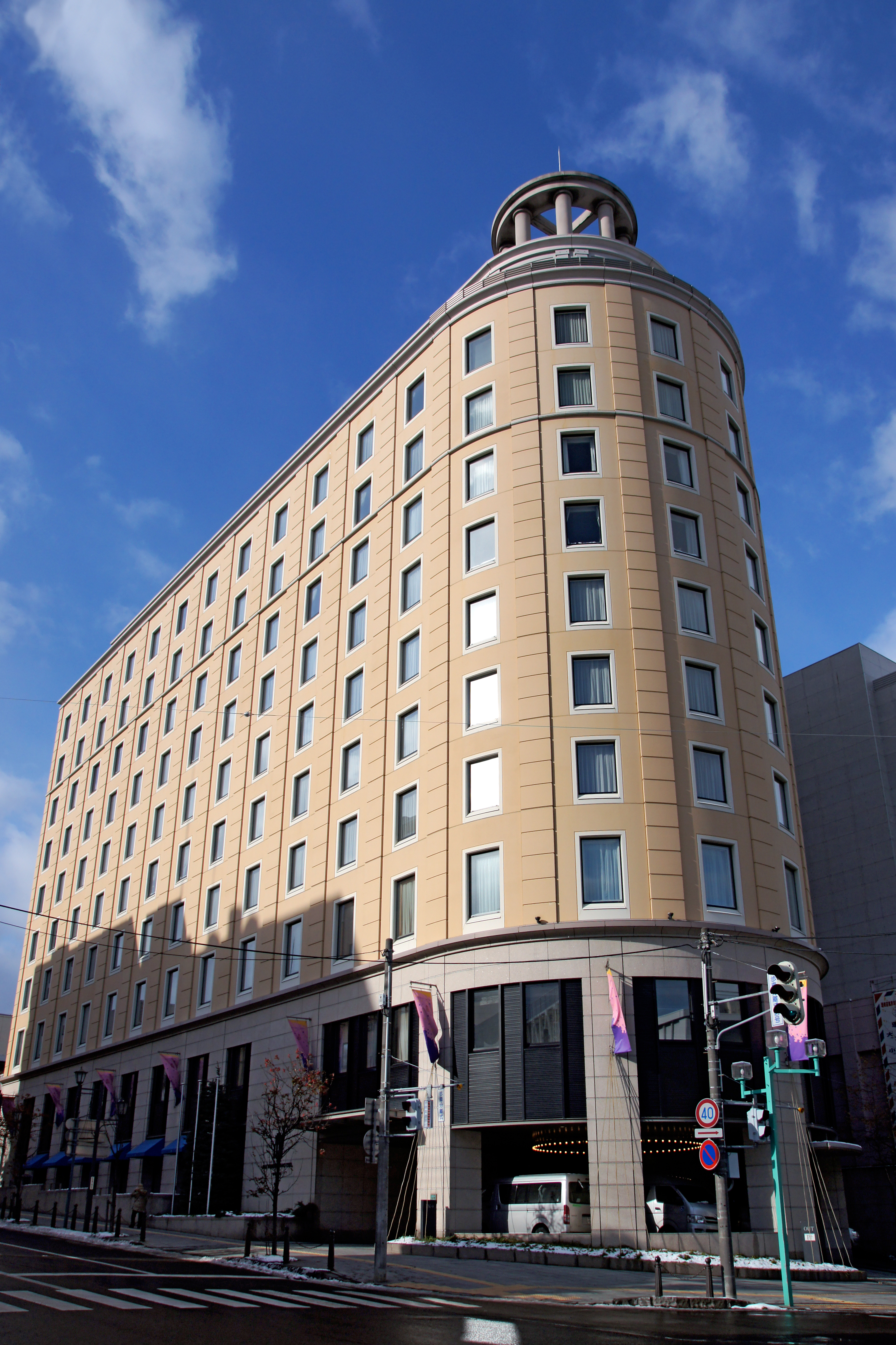 Authent Hotel Otaru in Otaru, Hokkaido prefecture, Japan